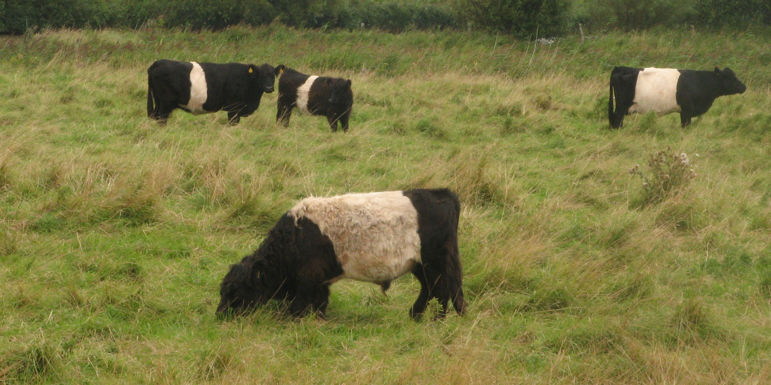 Belted Galloways in Neukoog, Nordfriesland, seen at the Wikimeeting Westküste